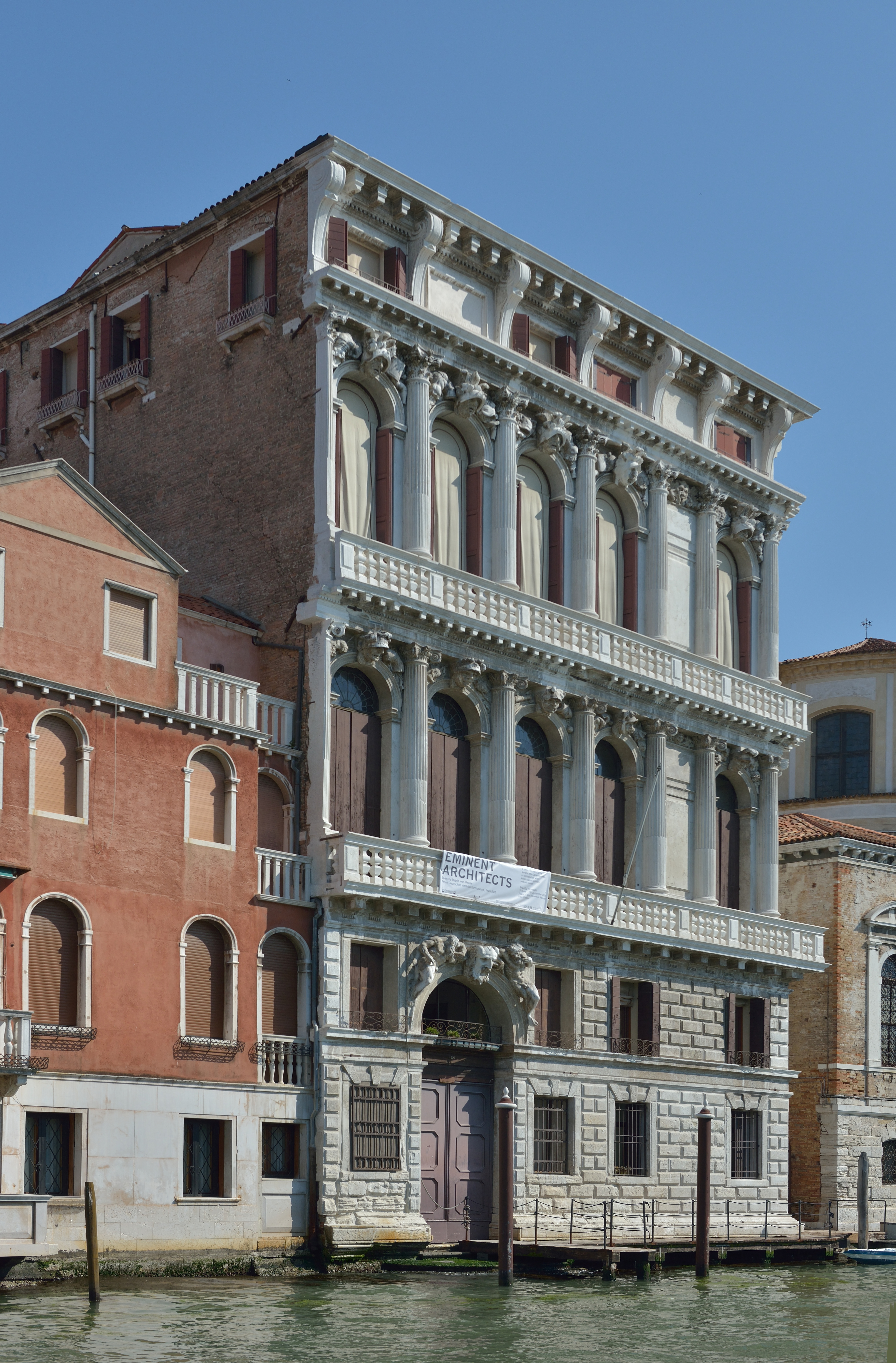 The Palazzo Flangini on the Canal Grande in Venice.